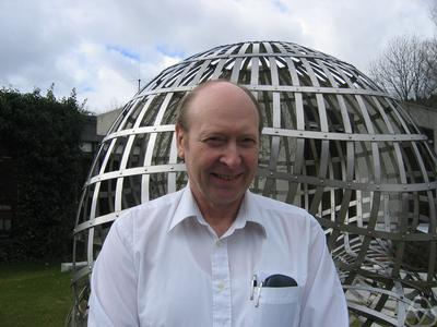 Robert Charles Vaughan at Workshop: Analytic Number Theory in Oberwolfach, 2008